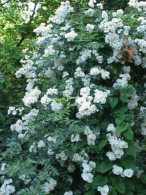 Species: Rosa wichuriana Family: Rosaceae Image No. 1